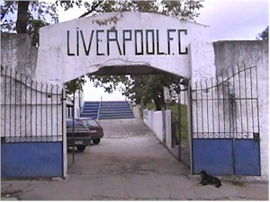 Estadio Belvedere